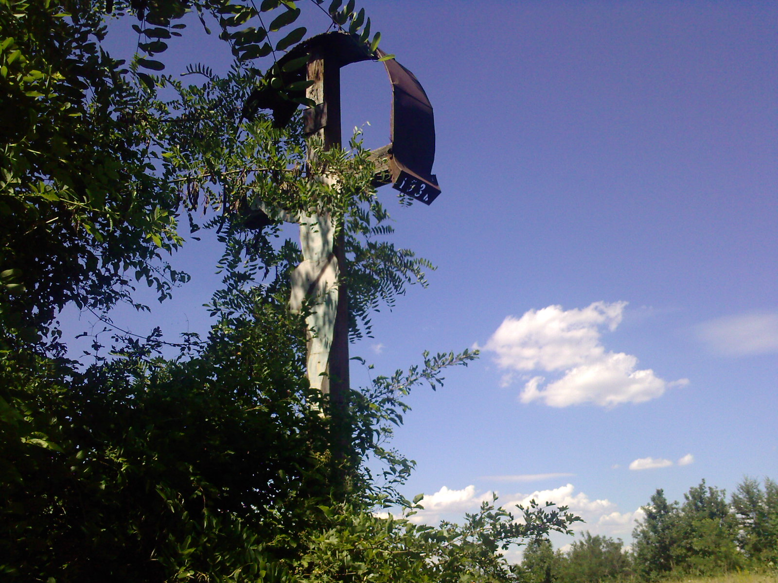 Crucifixion of Pria village, Sălaj County, Romania